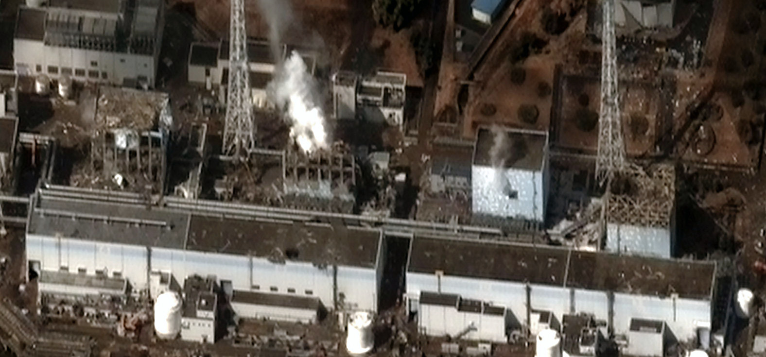 The Fukushima I Nuclear Power Plant after the 2011 Tōhoku earthquake and tsunami (fixed aspect ratio and brightened from original image)